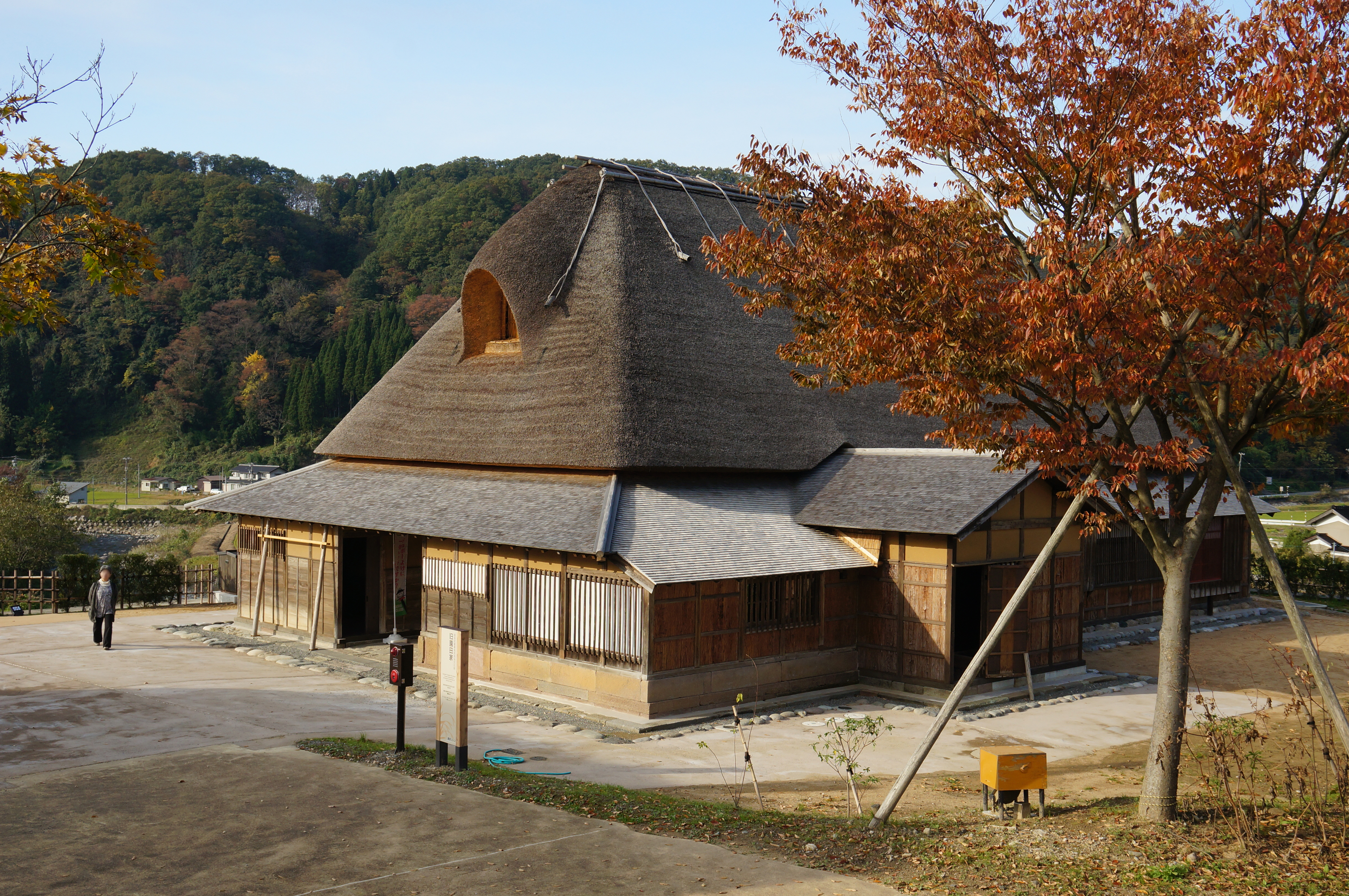 At Kanazawa Yuwaku Edomura in Kanazawa, Ishikawa prefecture, Japan.